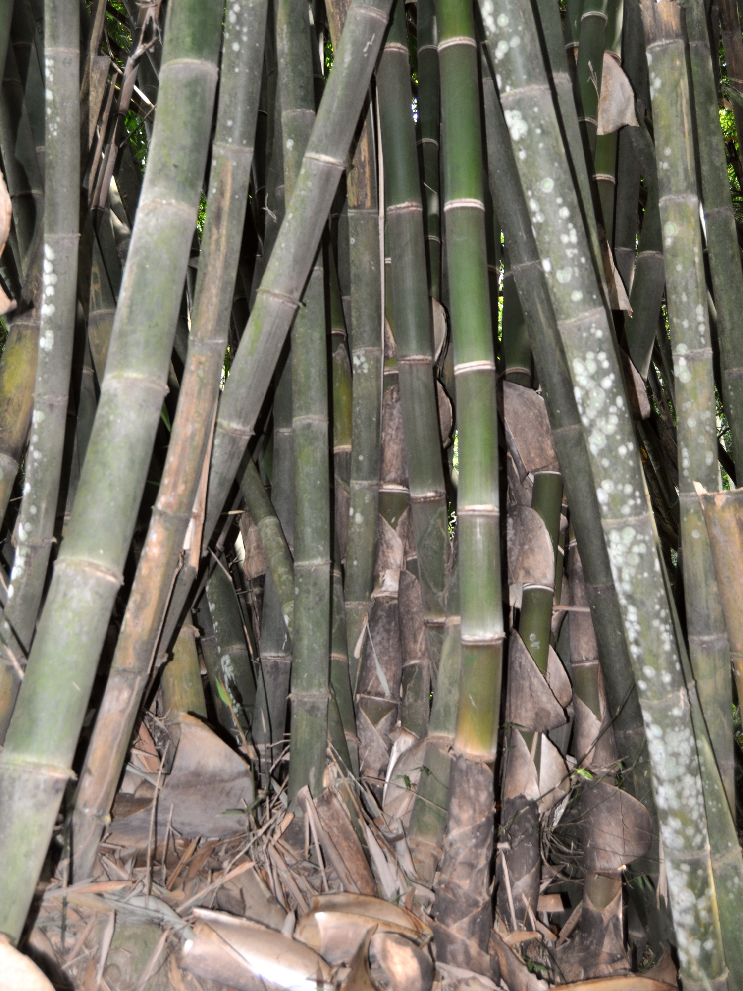 Sweet bamboo (Gigantochloa atter); lower culms. From Magetan, East Java, Indonesia.